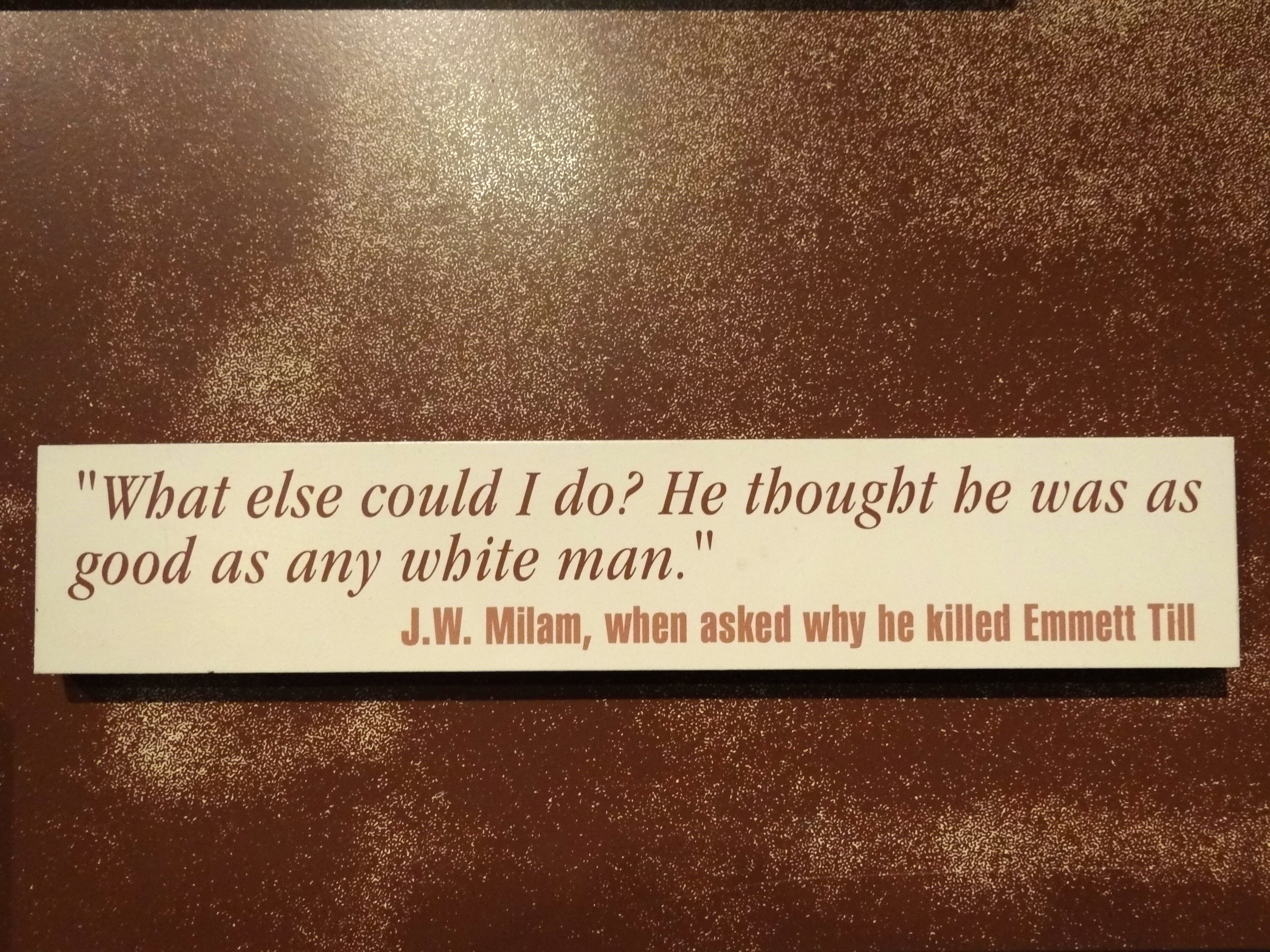 Display with Racist Quote from Murderer of Emmett Till - National Civil Rights Museum - Downtown Memphis - Tennessee - USA